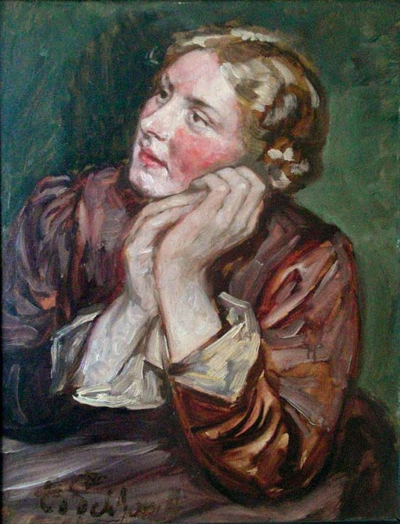 Eduard von Gebhardt "Portrait of a Woman". Sketch. Oil on paper. 40 x 30 cm